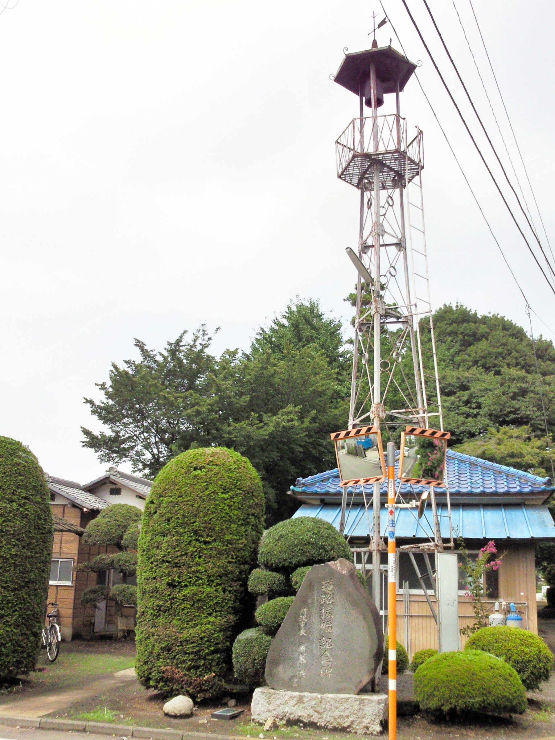 Hinomi-yagura, a fire lookout tower, and "Hansyō, an alarm bell, at Tokorozawa-shinden Inari-jinja.